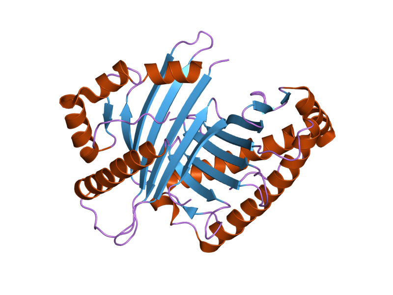 Cartoon representation of the molecular structure of protein registered with 3ery code.